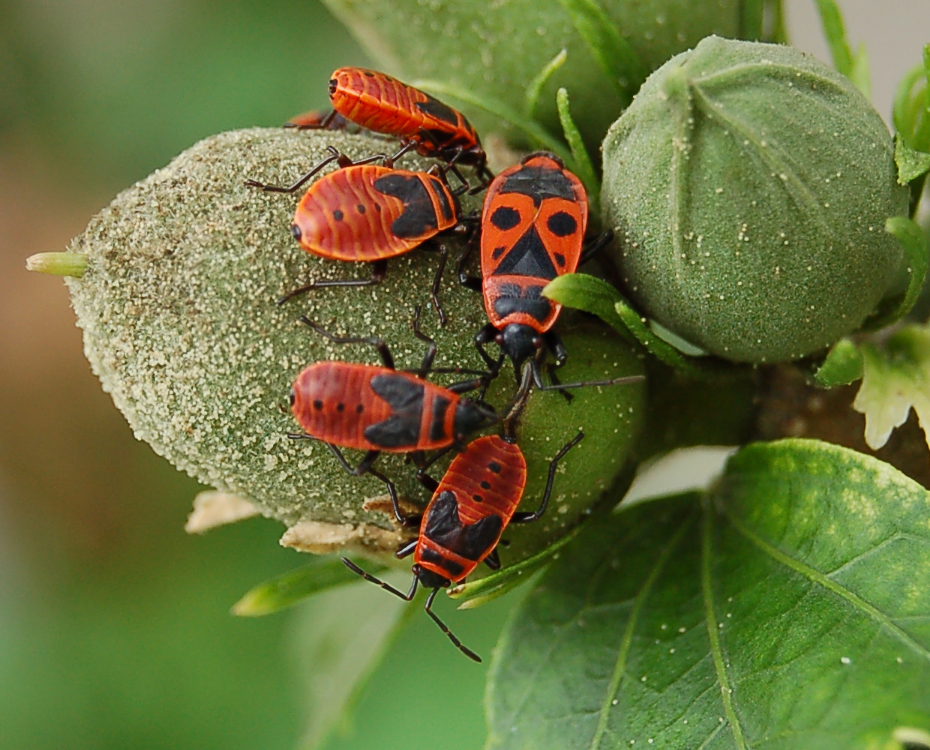 Gendarme - Pyrrhocoris apterus